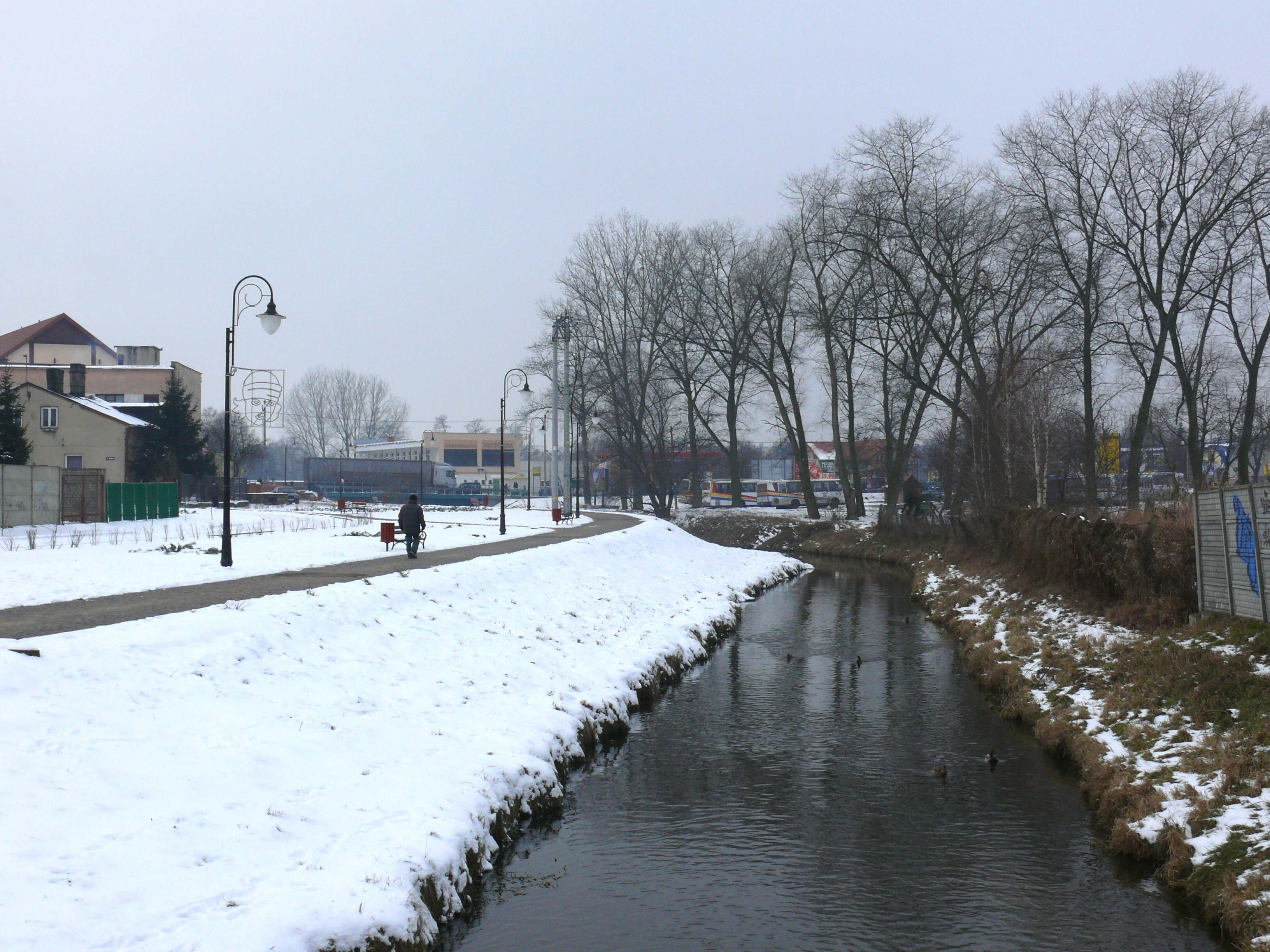 The River Mień flowing through Lipno, Kujawsko-Pomorskie, Poland